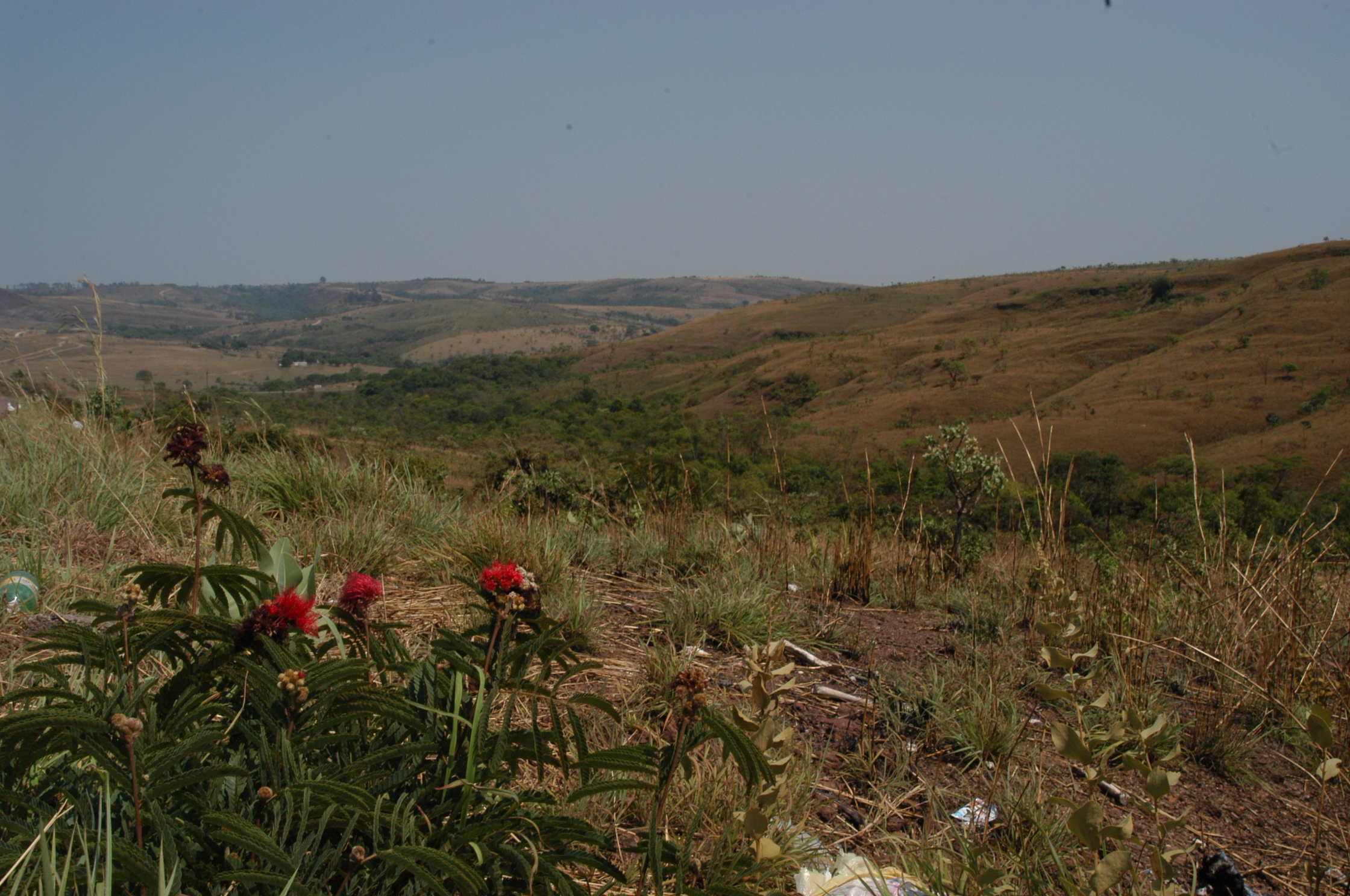 Caliandra dysanta